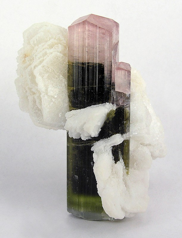 Elbaite, Albite, Schorl Locality: Stak Nala, Haramosh Mts., Skardu District, Baltistan, Northern Areas, Pakistan (Locality at ) Size: 62 mm x 39 mm x 38 mm. A classic of the late 1980s, now rare on the market! This combination of pink pinacoid and green basal terminations, both gemmy, on a dark core, is totally distinct. Almost all were found as floaters with these thin blades of Albite, making for a very aesthetic combination.